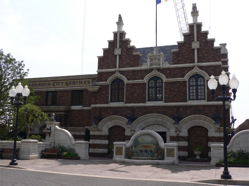 Restroom and First Aid (Tokyo DisneySea)